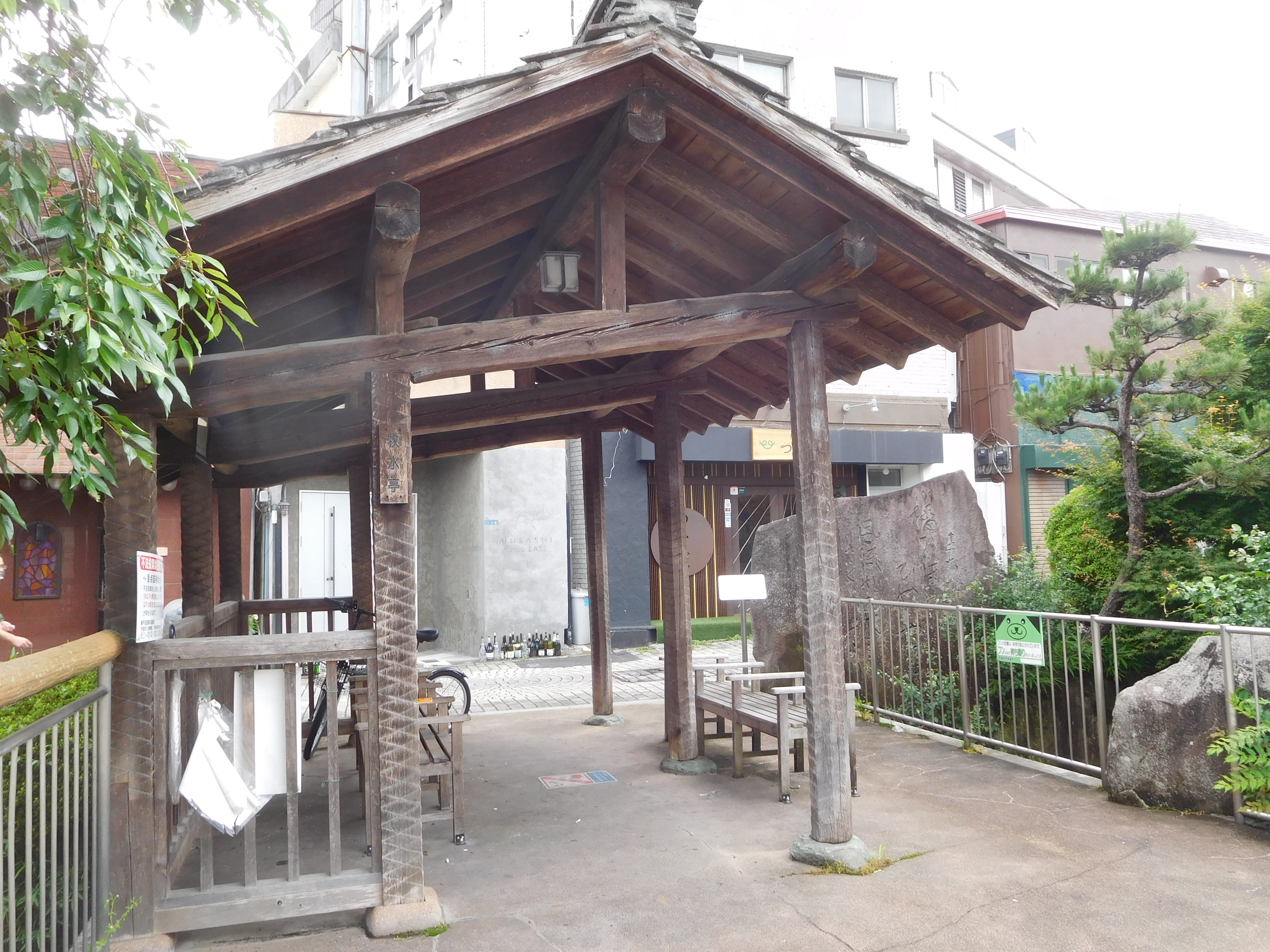 This is Bokusui Tei in Utsunomiya, Tochigi, Japan.